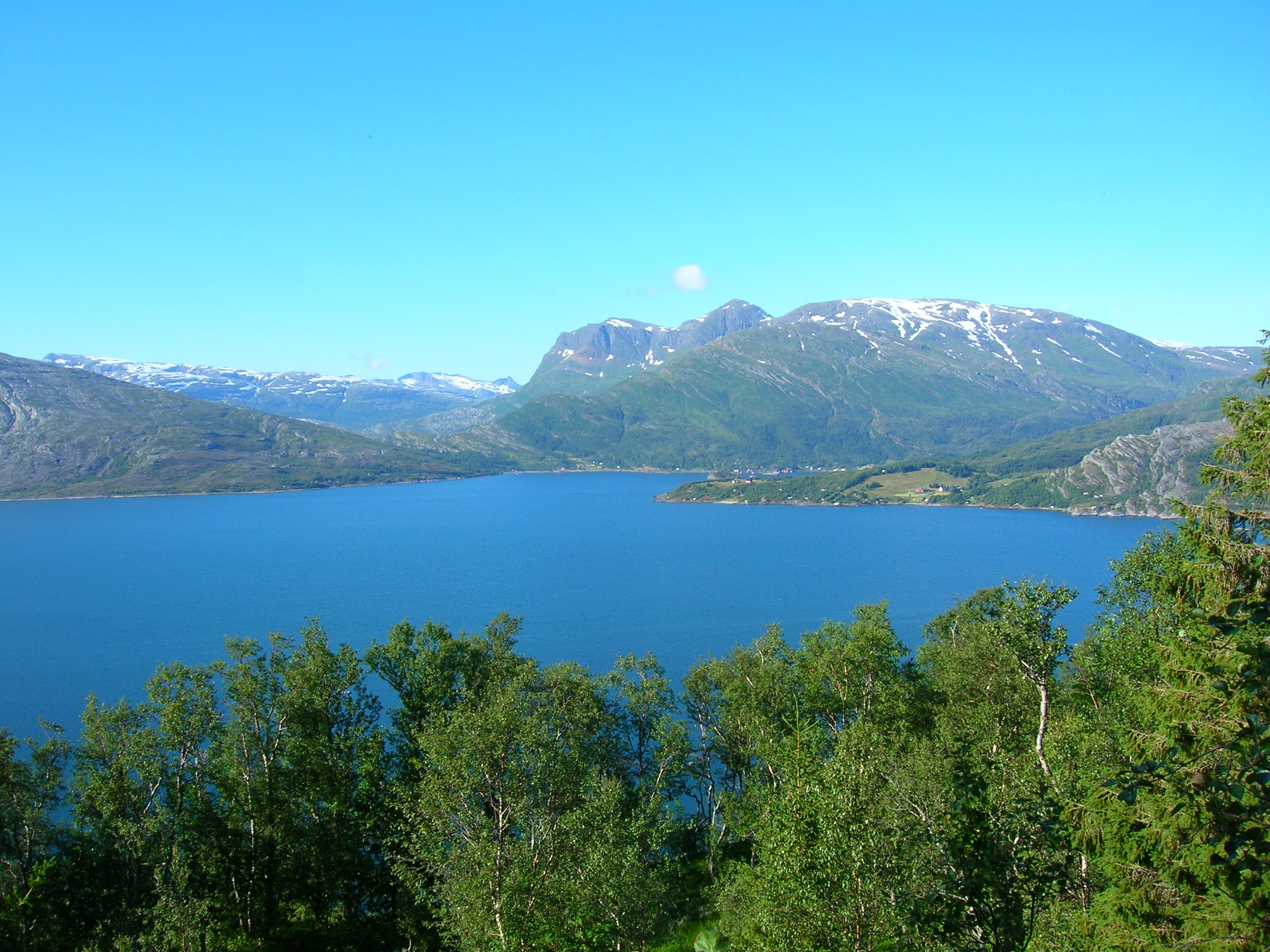 The fjord Nordsjona in Rana, seen from south between Nesna and Mo i Rana, Nordland, Norway. Photo July 14, 2007 with a Nikon Coolpix 5600 5,1 Megapixel camera.